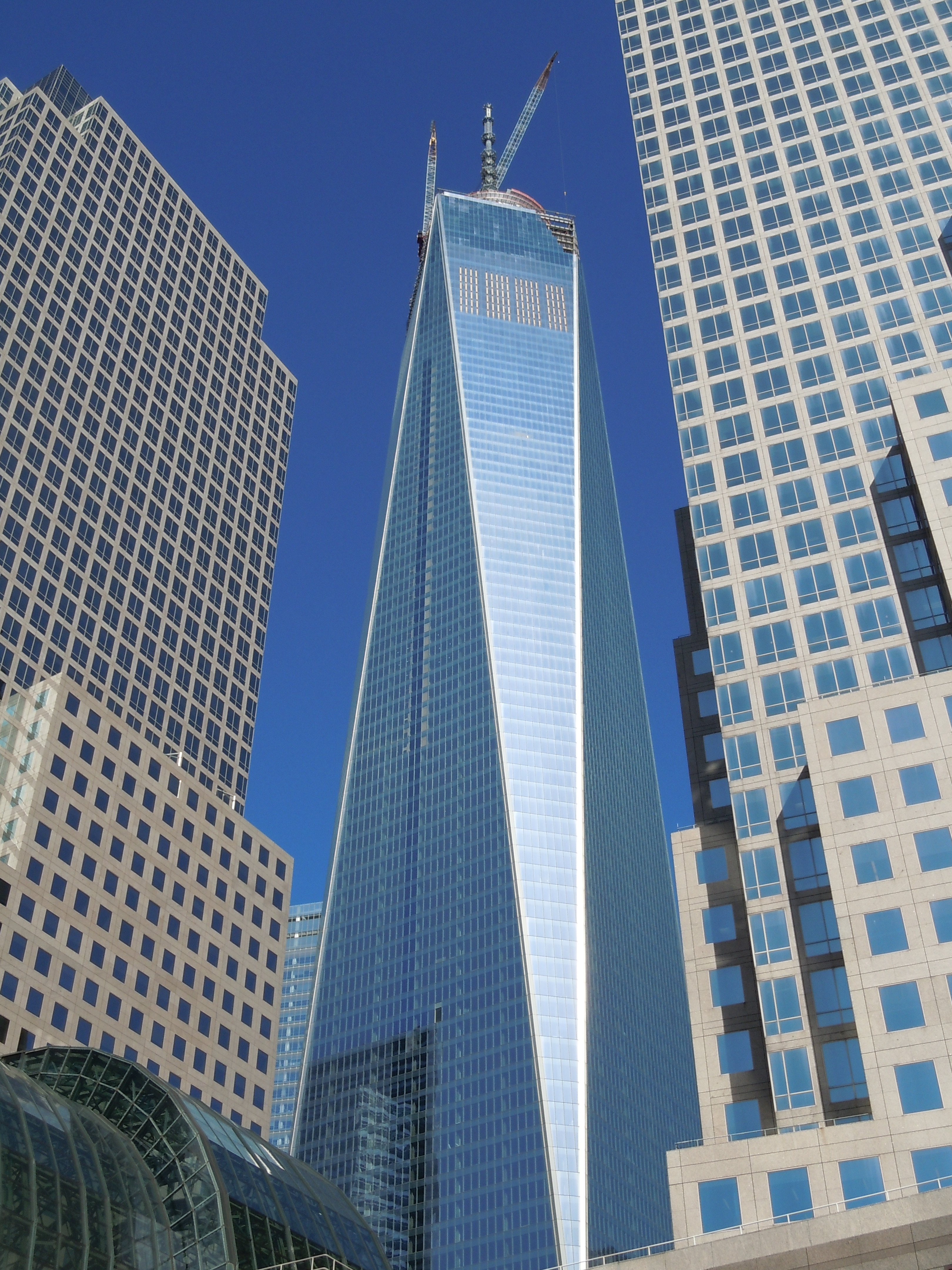 Its May 1st, 2013 and she is all Glassed up on this side. World Trade Center, New York City, New York J Riehle